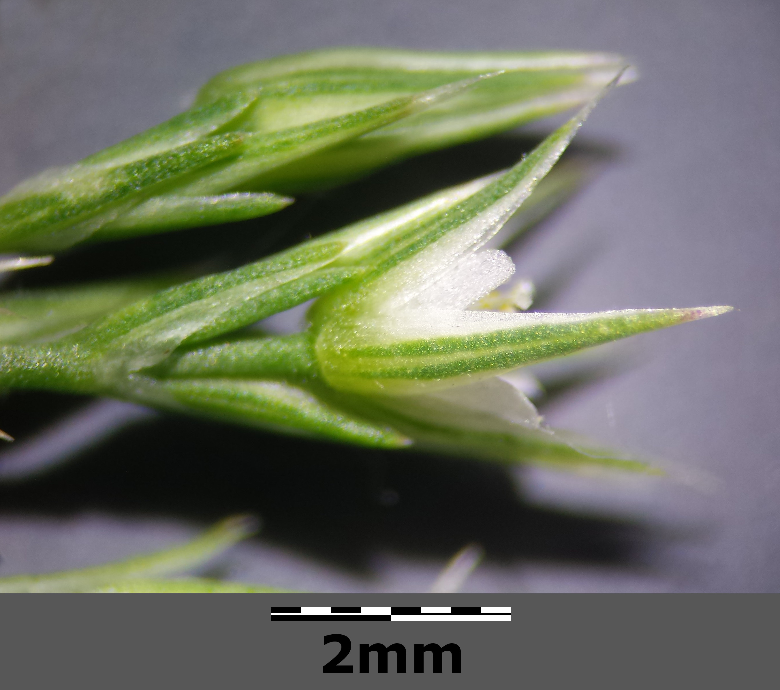 Inflorescence Taxonym: Minuartia rubra ss Fischer et al. EfÖLS 2008 ISBN 978-3-85474-187-9 Location: Steinbacher Heide, Leiser Berge, district Korneuburg, Lower Austria - ca. 450 m a.s.l. Habitat: lime stone rocks